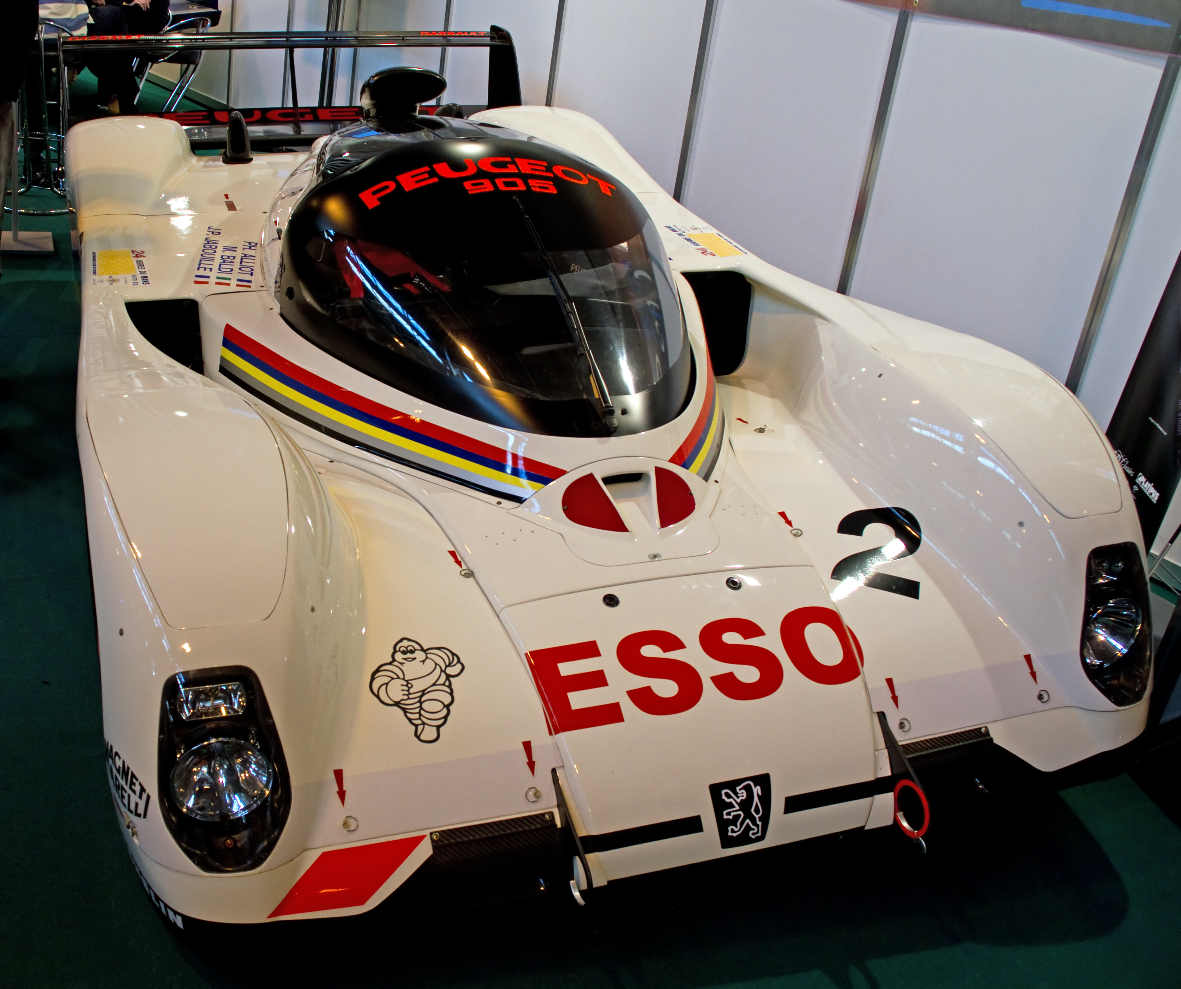 The Peugeot 905 Evo 1B of the 24 Hours of Le Mans race in 1992 and 1993 (co-drivers: Alliot-Baldi-Jabouille).